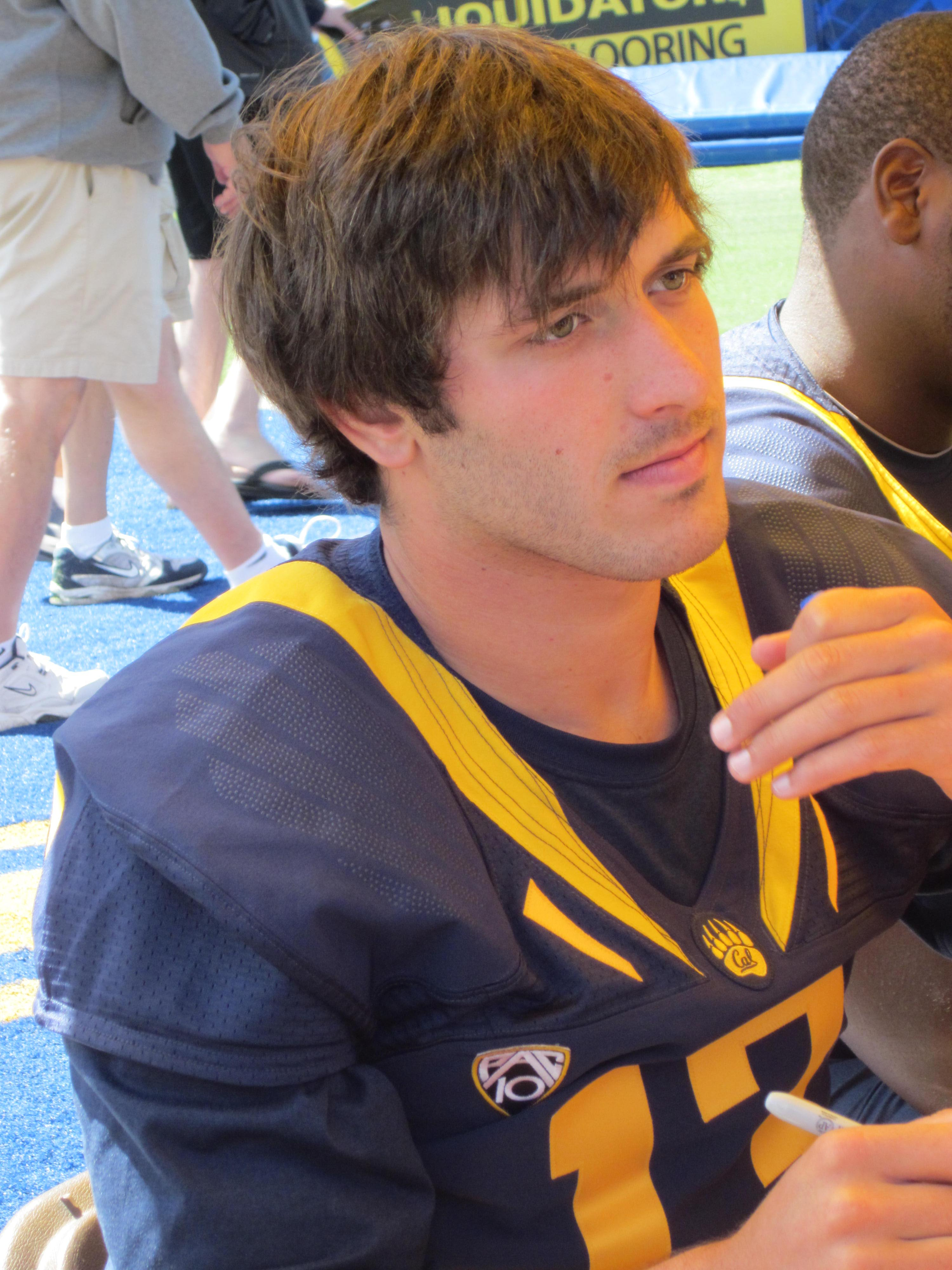 Cal quarterback Kevin Riley at Cal Fan Appreciation Day at Memorial Stadium in Berkeley.